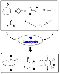 hiiiiiii